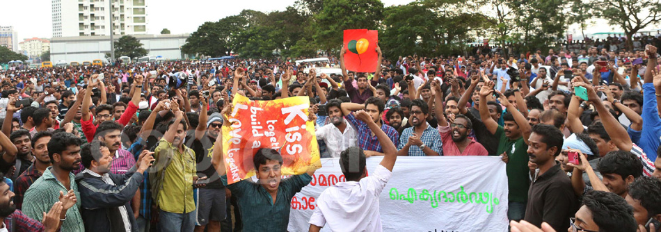 Supporters of Kiss of Love On Marine Drive Kochi